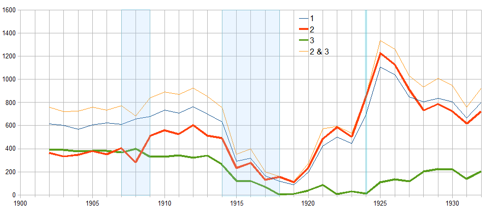 § 175 "Abgeurteile" and "Verurteilte"; homosexuality & bestiality; 1902-1932 1: conviction, 2: conviction or acquittal in the court for homosexuality, 3: conviction or acquittal in the court for bestiality, 4: 2 & 3 Events: 1907-1909: Harden-Eulenburg Affair; 1914-1918 WW1; 1924: Fritz Haarmann